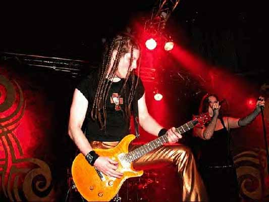 Flowing Tears live 2004